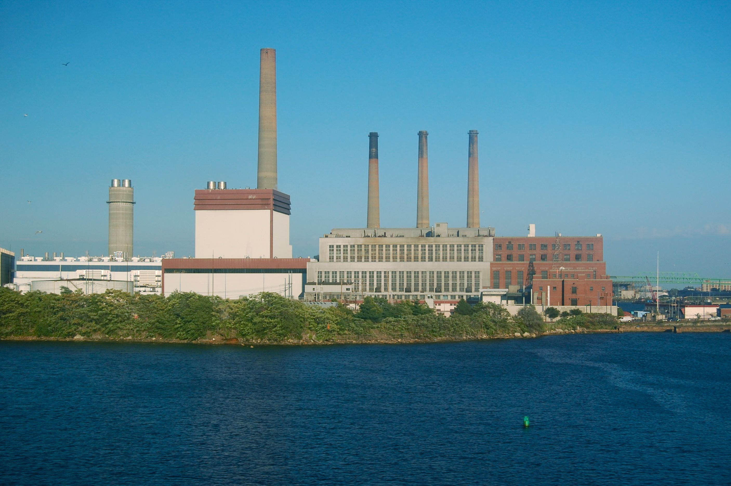 Mystic Station power plant in Everett, Massachusetts. A 2,600 megawatt oil and gas burning plant. The oil burning section was constructed in 1943. One of the smokestacks of Mystic 8&9 is visible on the left, which burns gas. Picture taken through a train window.